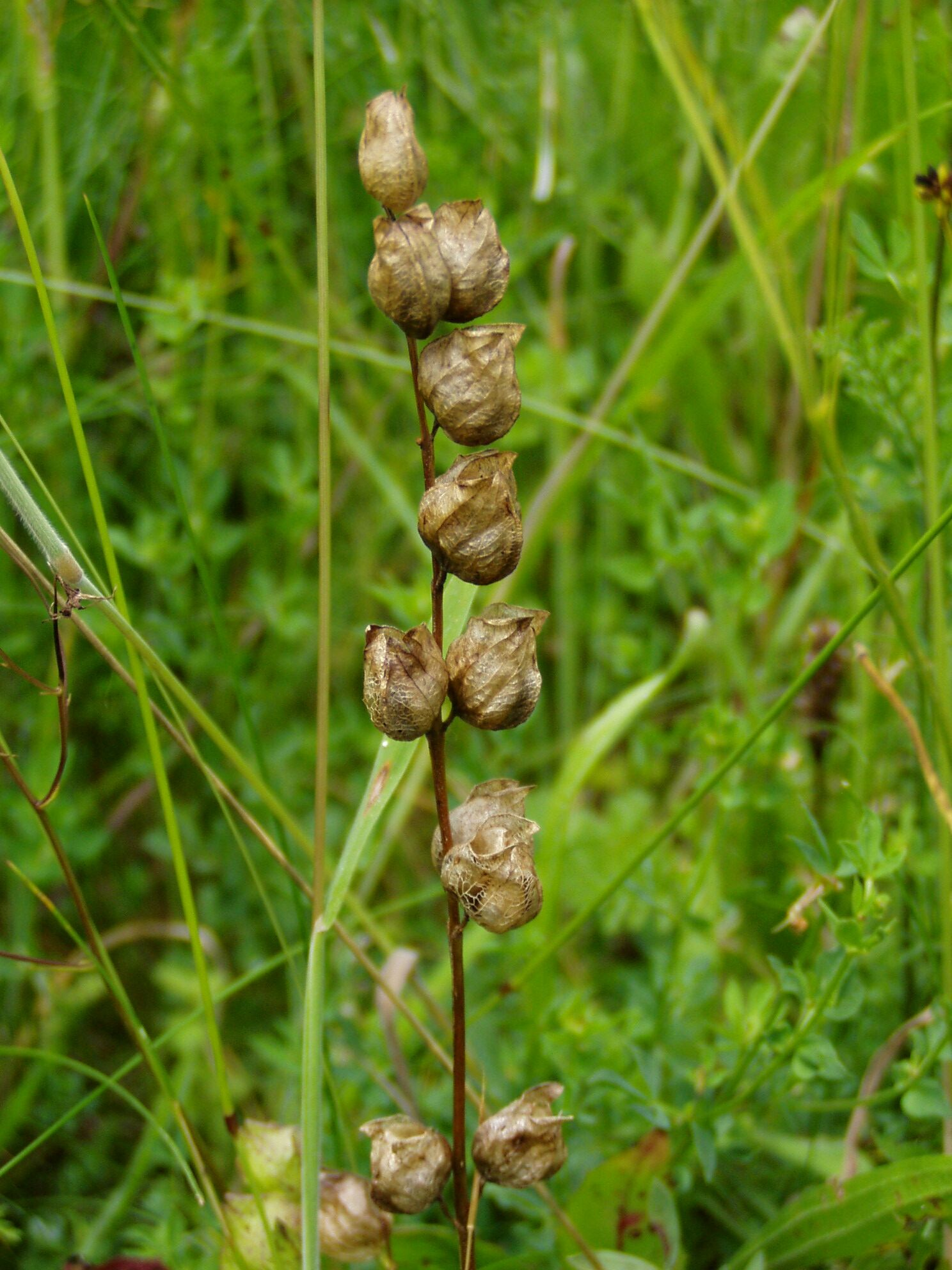 Infrutescence Yellow-rattle (Rhinanthus minor), Sausal, Styria, Austria